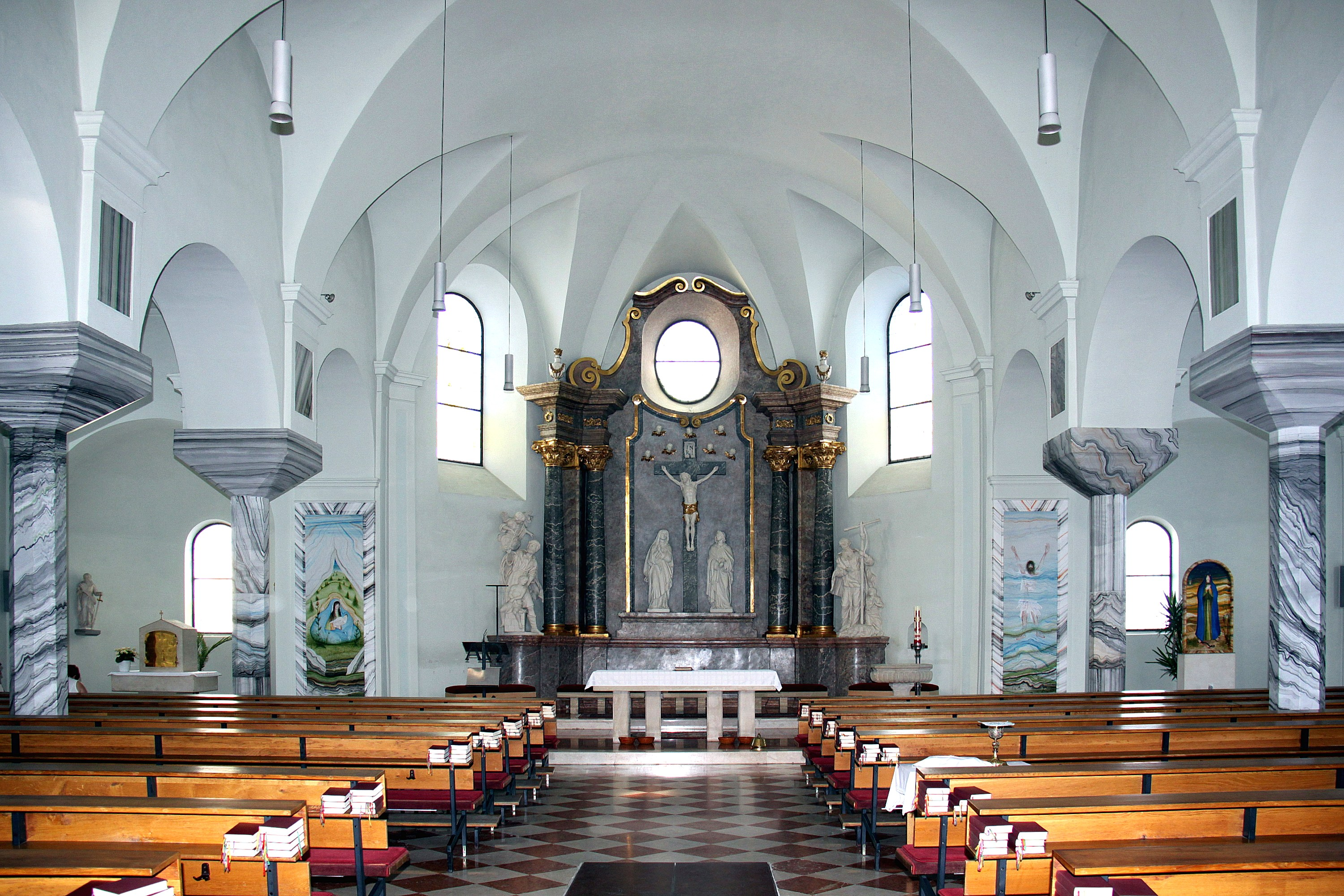 Parish church Feast of the Cross - Deutschkreutz